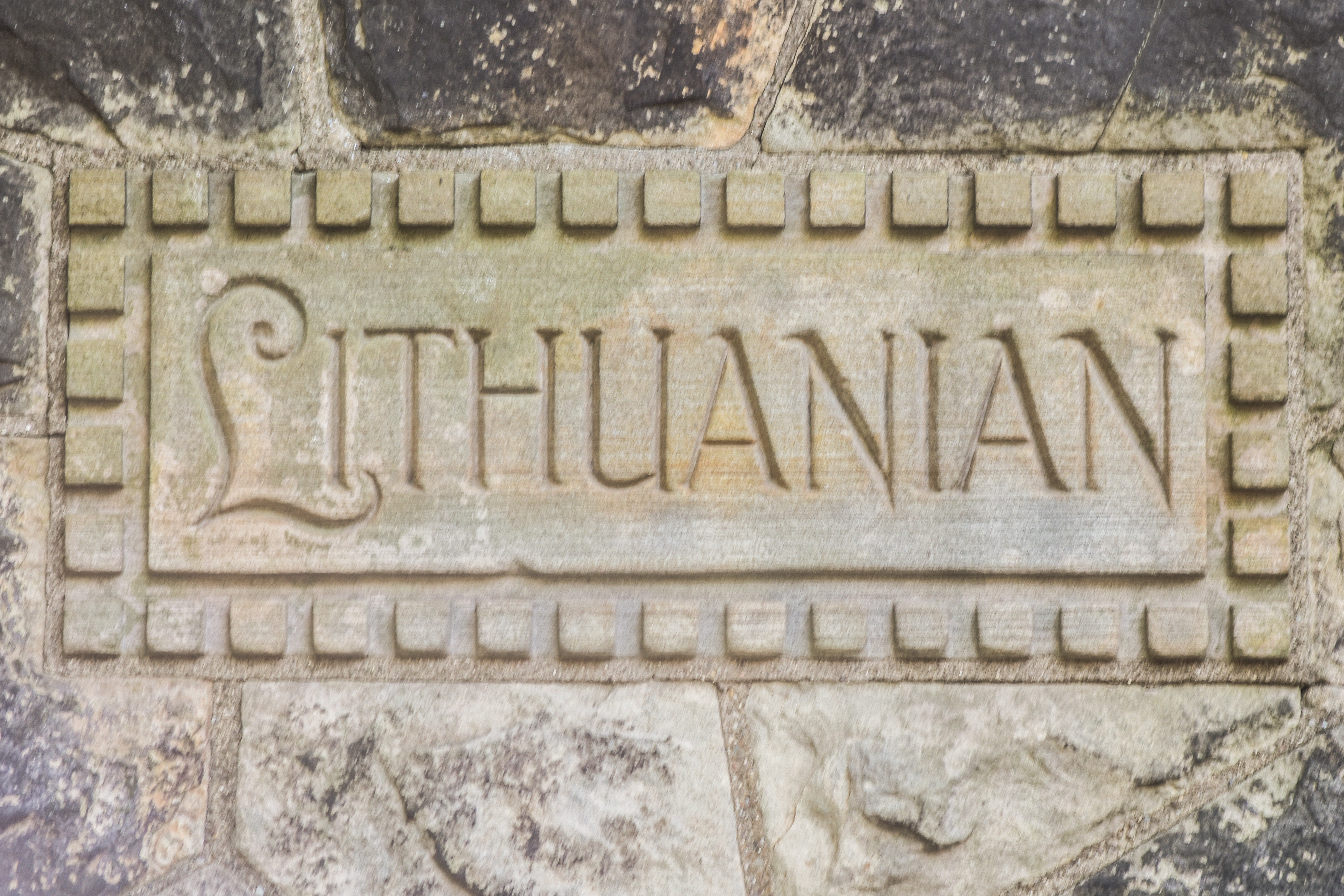 Cultural Gardens of Cleveland